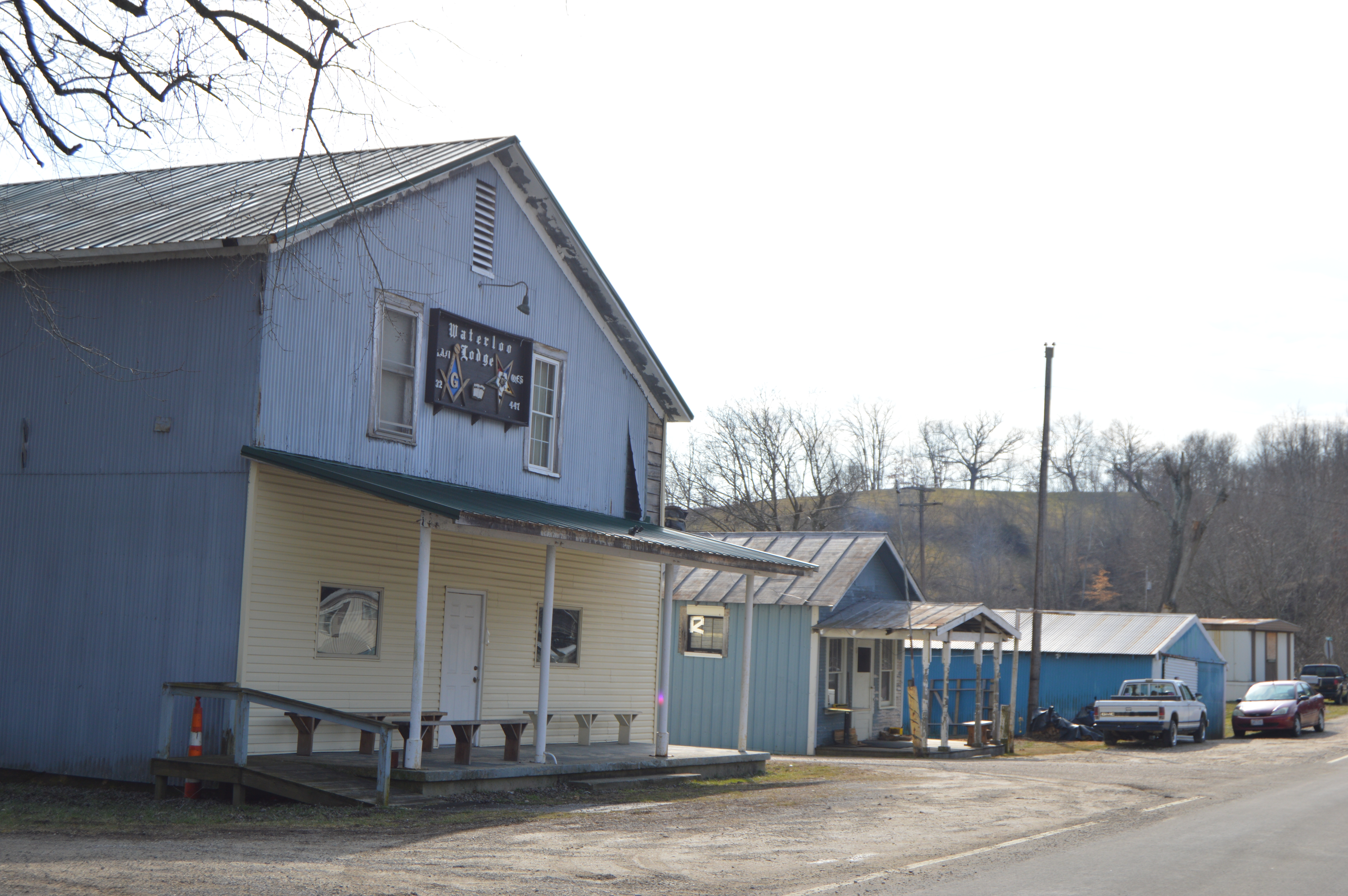 Assorted buildings, including the local Masonic lodge hall, in Waterloo, Ohio, United States, located on the eastern side of State Route 141 north of the Symmes Creek bridge.